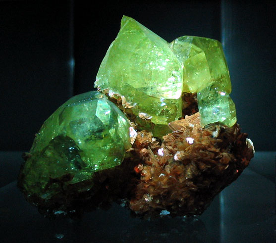 Yellowish-green brazilianite crystals with muscovite Galilea mine, Minas Gerais, Brazil. Photograph taken at the Natural History Museum, London.